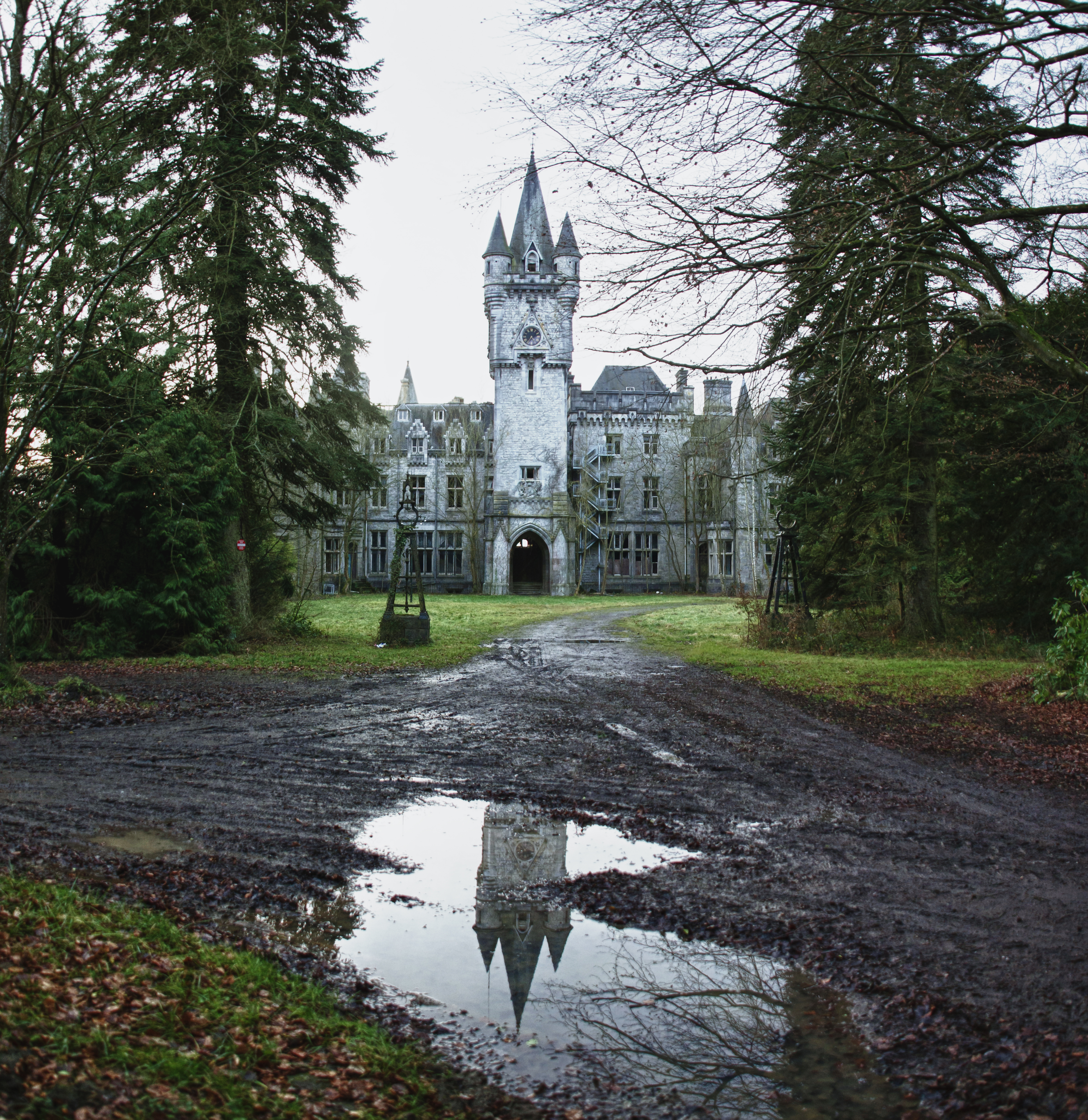 Château Miranda / Château de Noisy - Celles - Belgium Highest position Explore: #118 on Monday, January 9, 2012